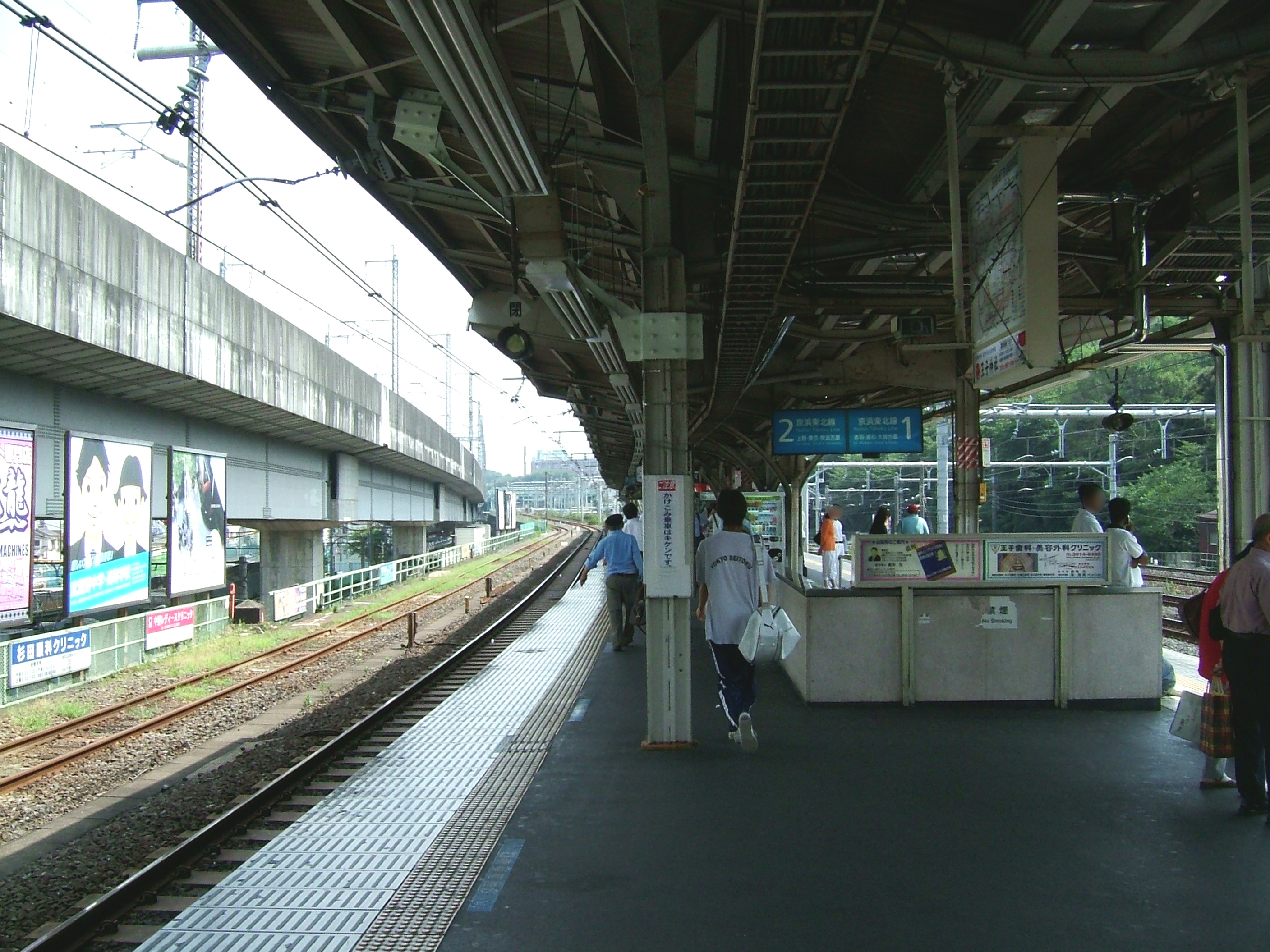 The platform at Ōji Station on the Keihin–Tōhoku Line in Kita city, Tokyo, Japan